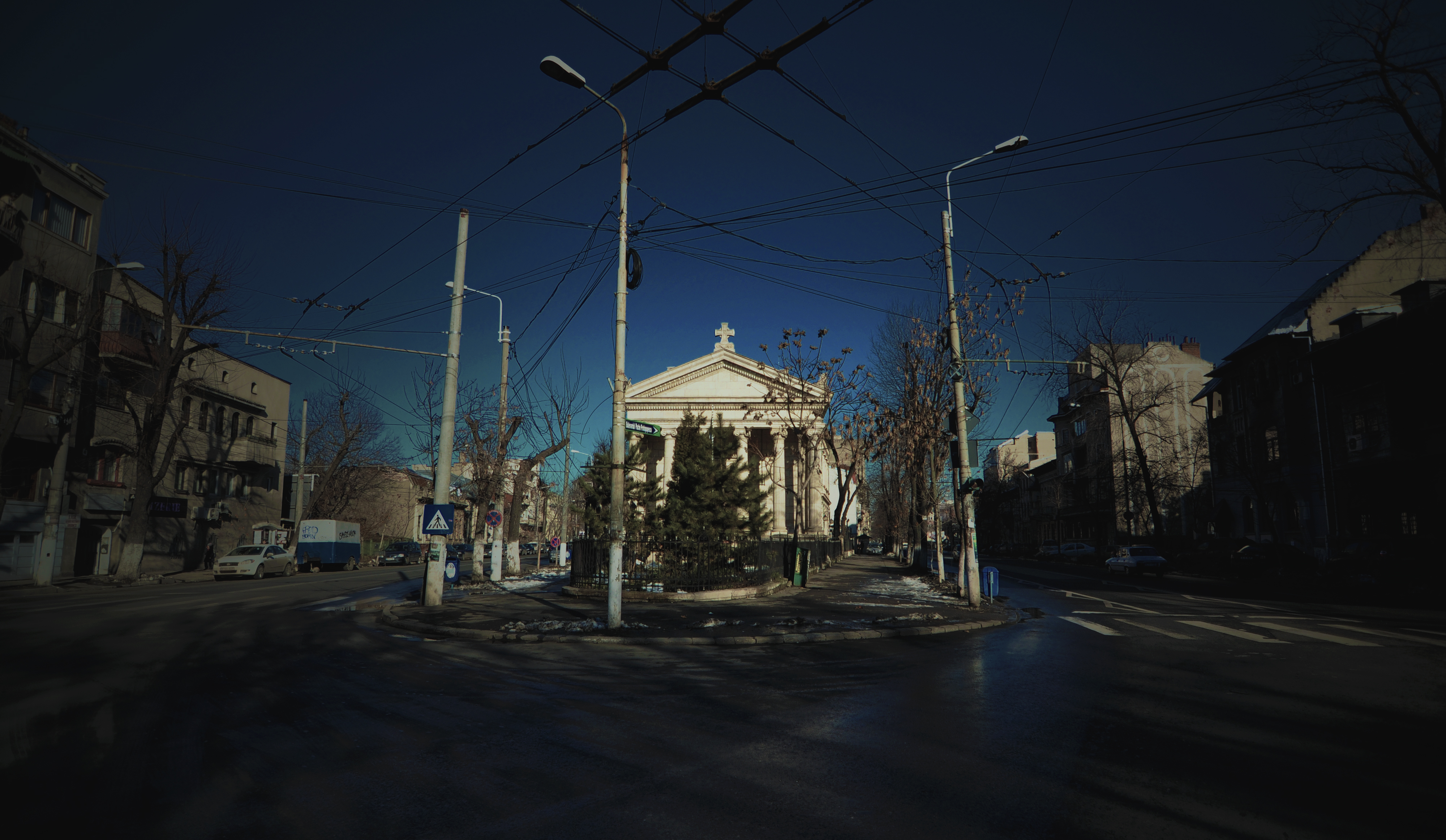 Greek Orthodox Church - Ecumenical Patriarchate of Constantinople, Bucharest, Romania [finished in 1900]